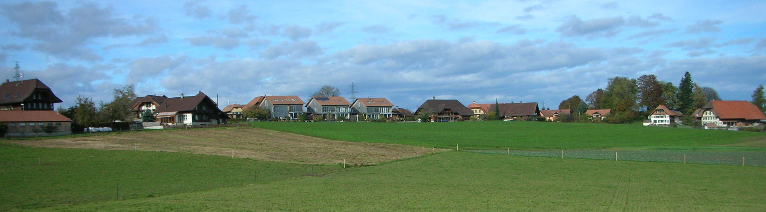 The village Diemerswil (Canton Bern / Switzerland) seen from South.